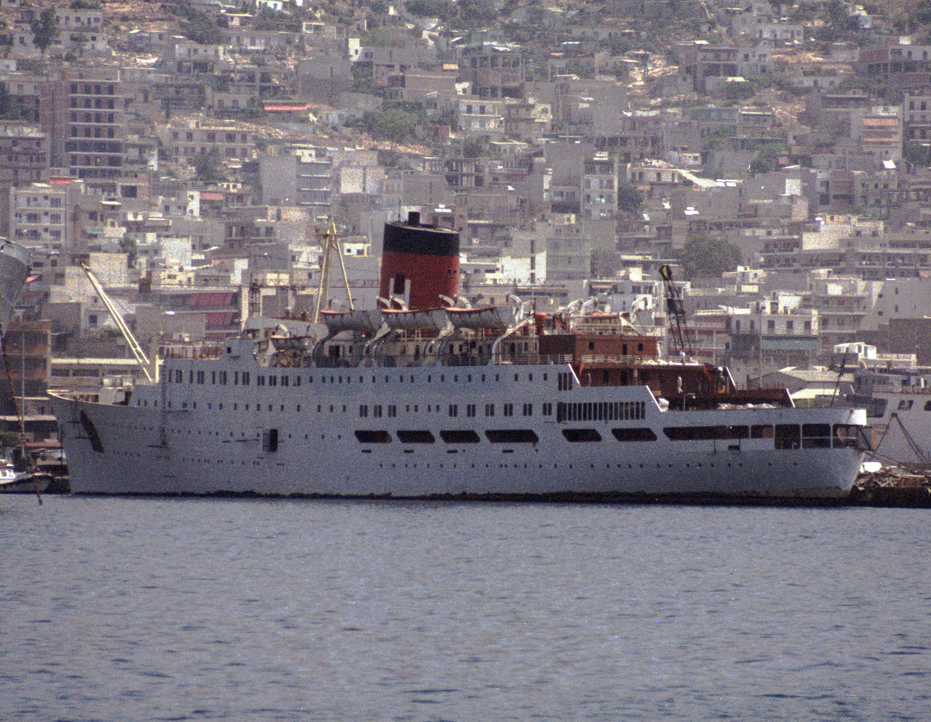 The ferry Albatross during her conversion to cruise ship at Perama on June 23, 1983.